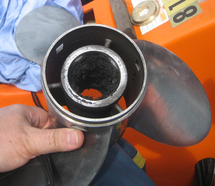 Stainless steel propeller of a Mercury 135hp outboat motor where rubber bush failed